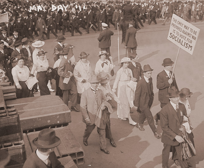 May Day anti-preparedness parade, New York City, 1916